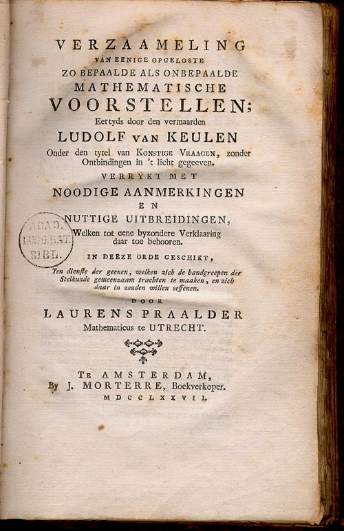 Book of Dutch 18th century mathematician Laurens Praalder